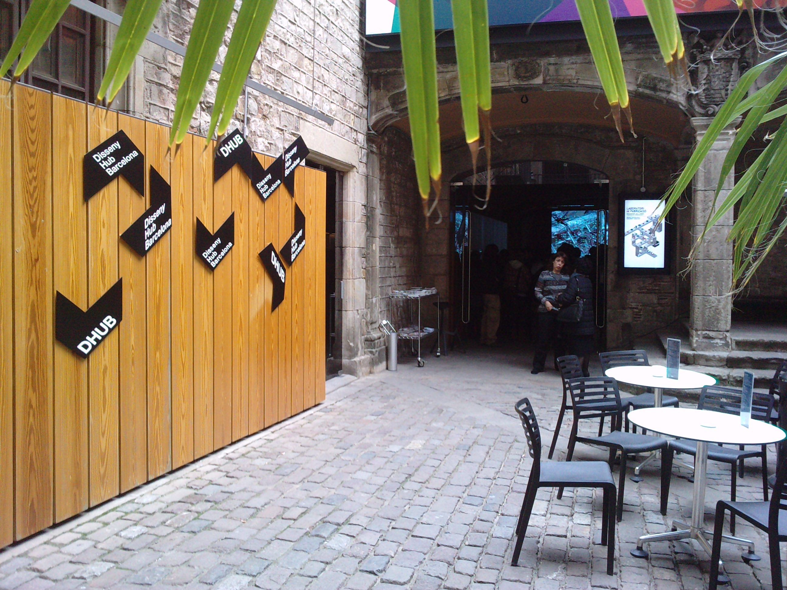 museums terrace